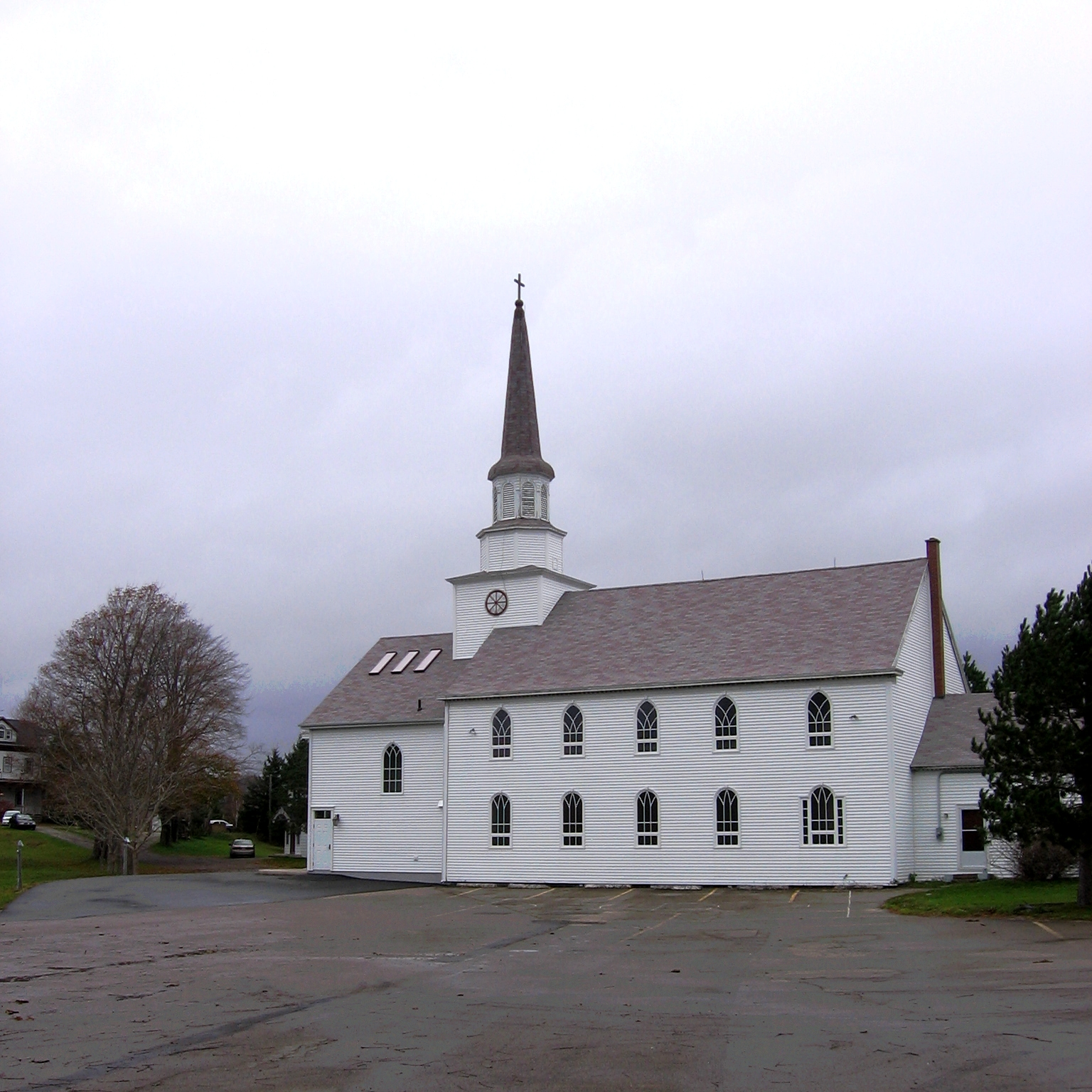 Catholic Church at East Bay, Cape Breton, Nova Scotia. It was the site of the College of East Bay (1824-1829) which was moved to Antigoinsh and became Saint Francis Xavier University. St FX later opened a branch in Cape Breton which became the University College of Cape Breton, later Cape Breton University)